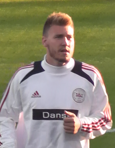 Nicklas Bendtner warming up for Denmark for a home game against Slovakia.